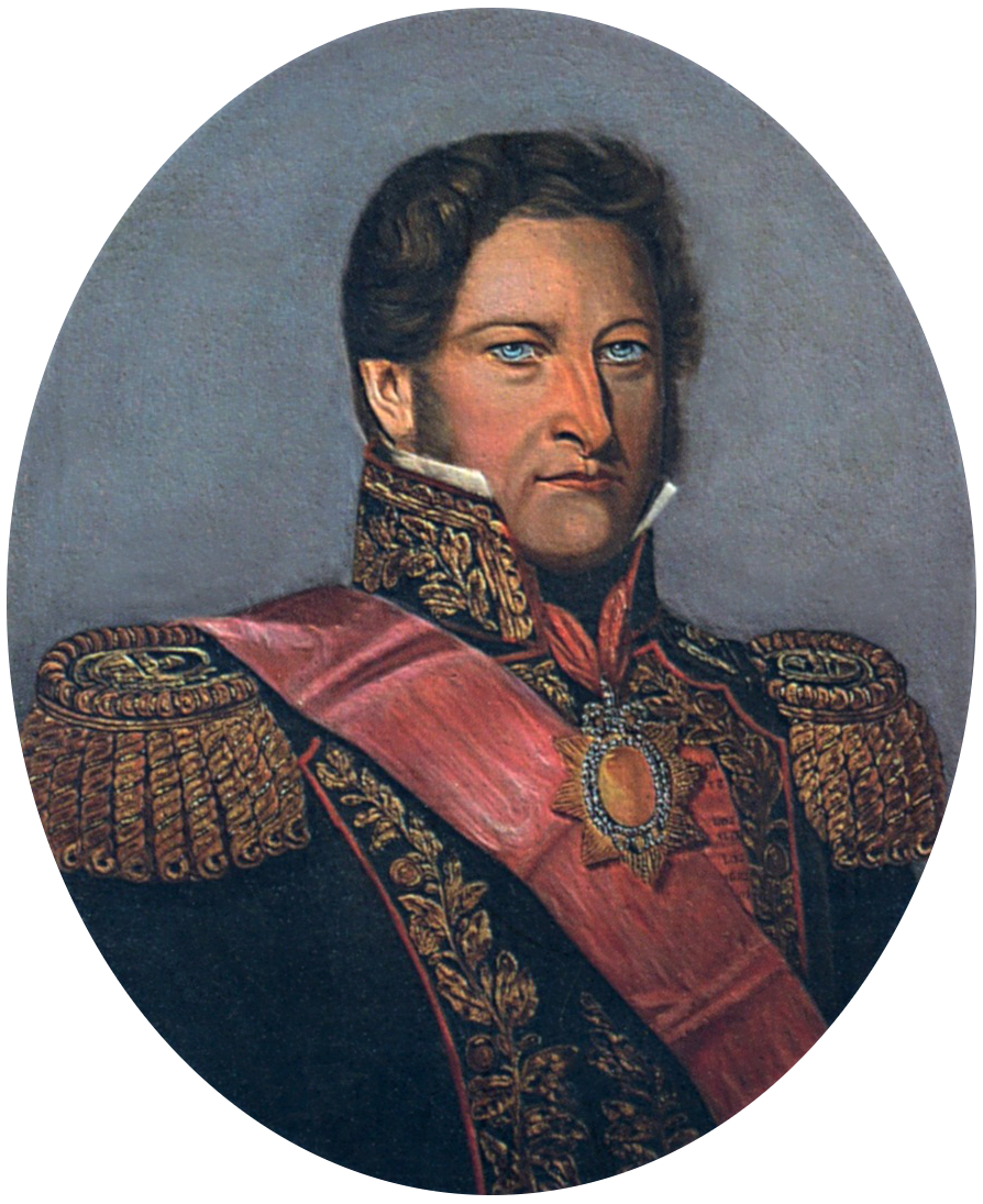 Juan Manuel de Rosas, governor of Buenos Aires and dictator of the Argentine Confederation.